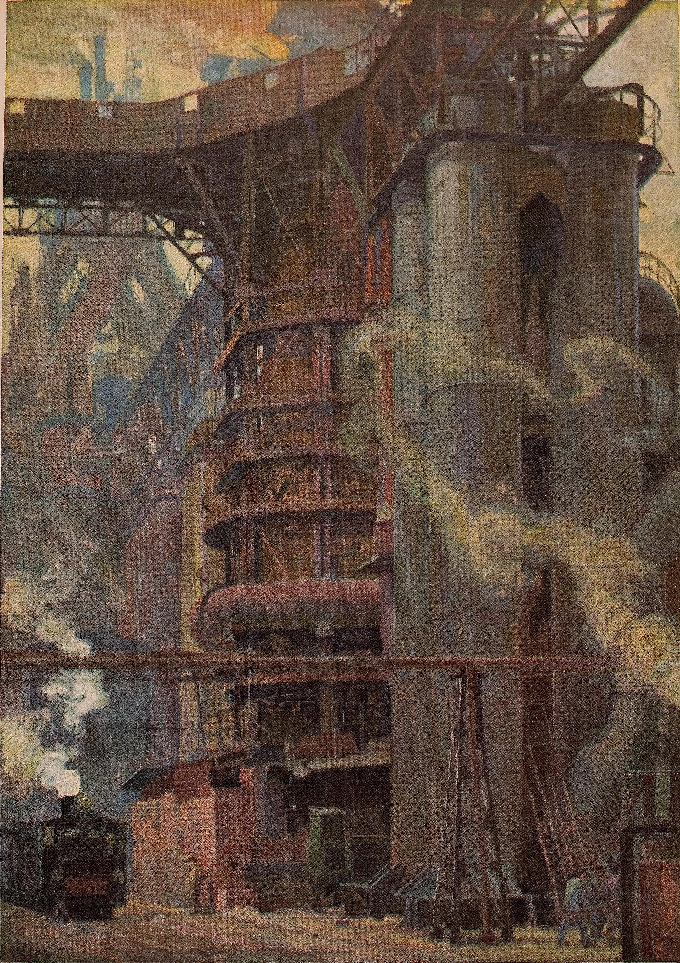 Heinrich Kley's painting of the Friedrich-Alfred-Hütte was featured in the Jugend magazine, issue 25, 1911.